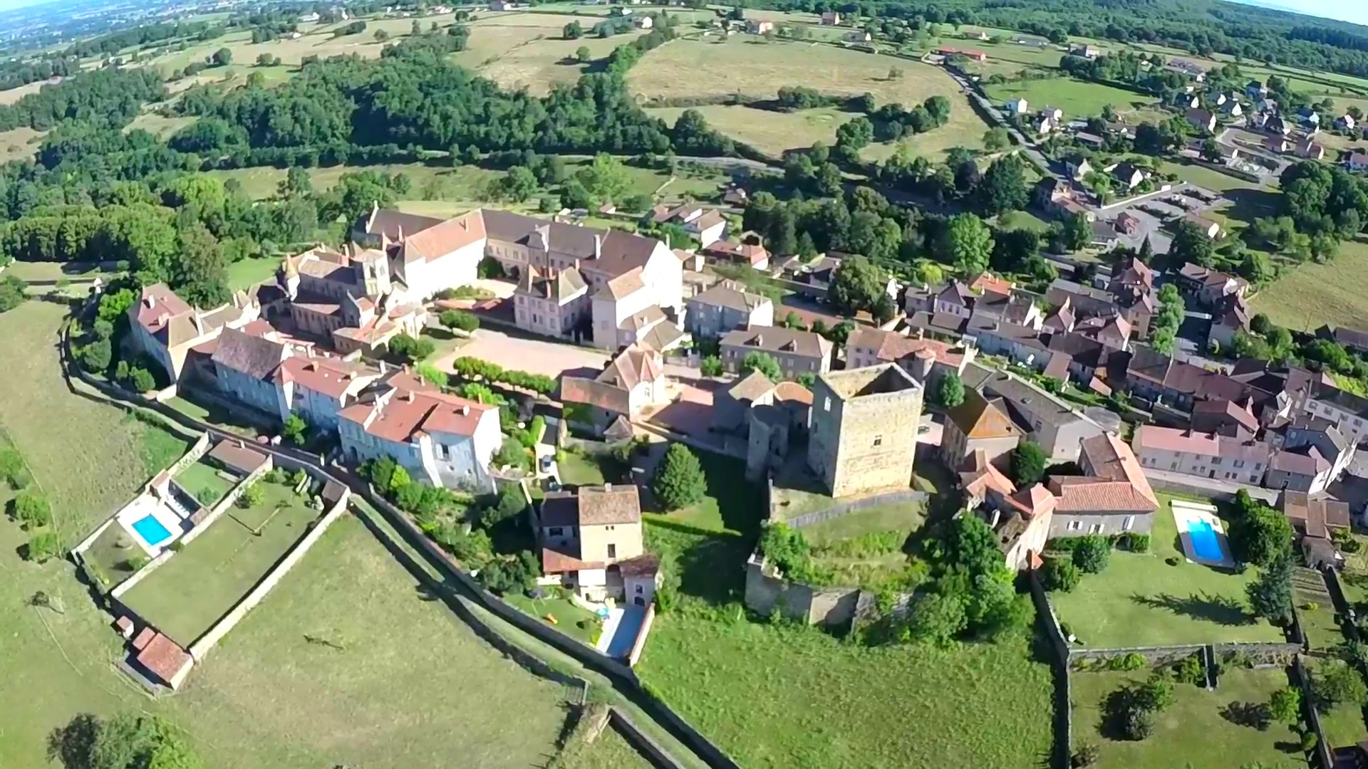 An aerial view of the village.